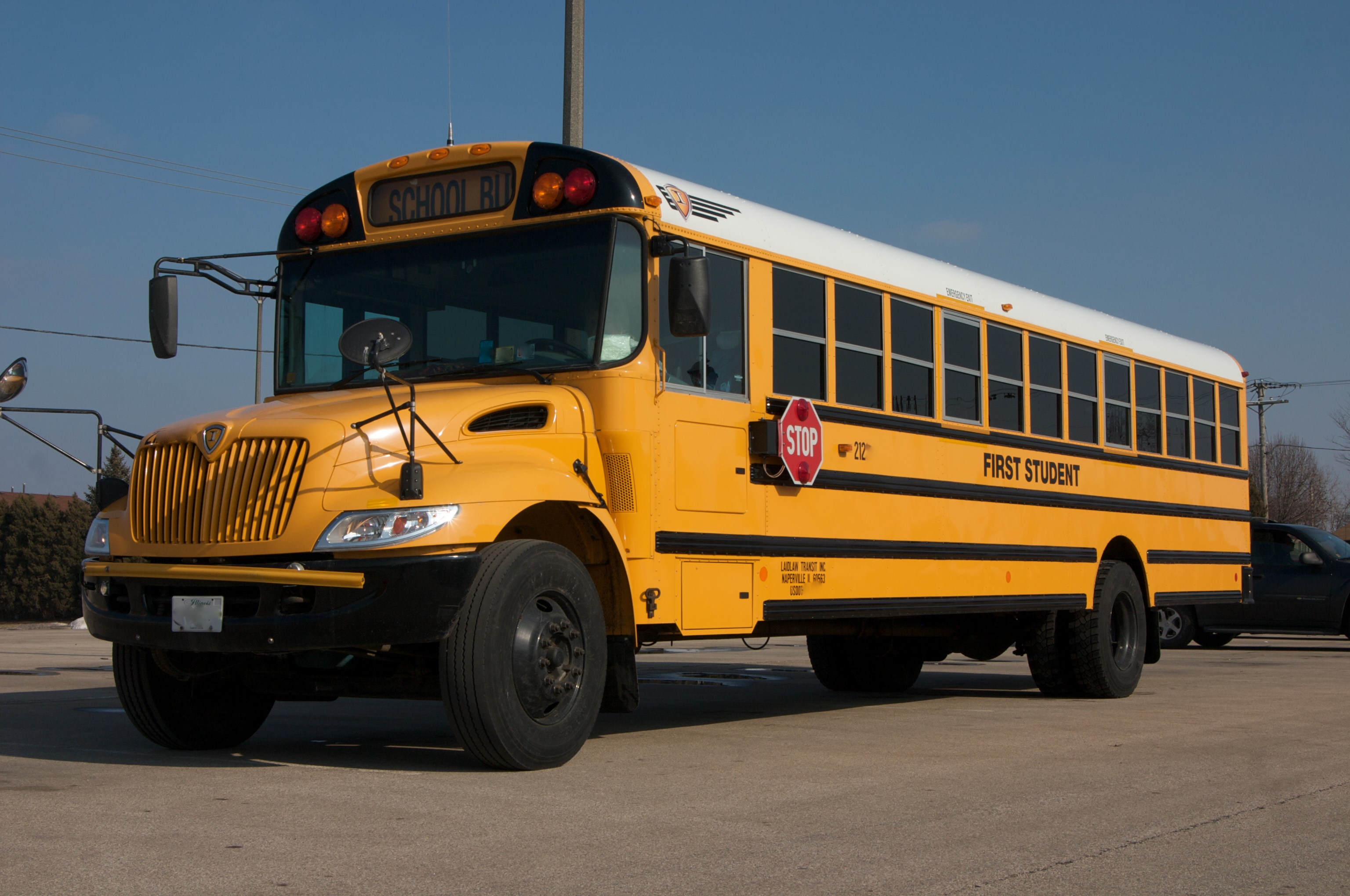 Photograph of a school bus in Roselle, Illinois. Bus is a IC Bus CE-Series body on a mid to late-2000s International 3300 chassis.